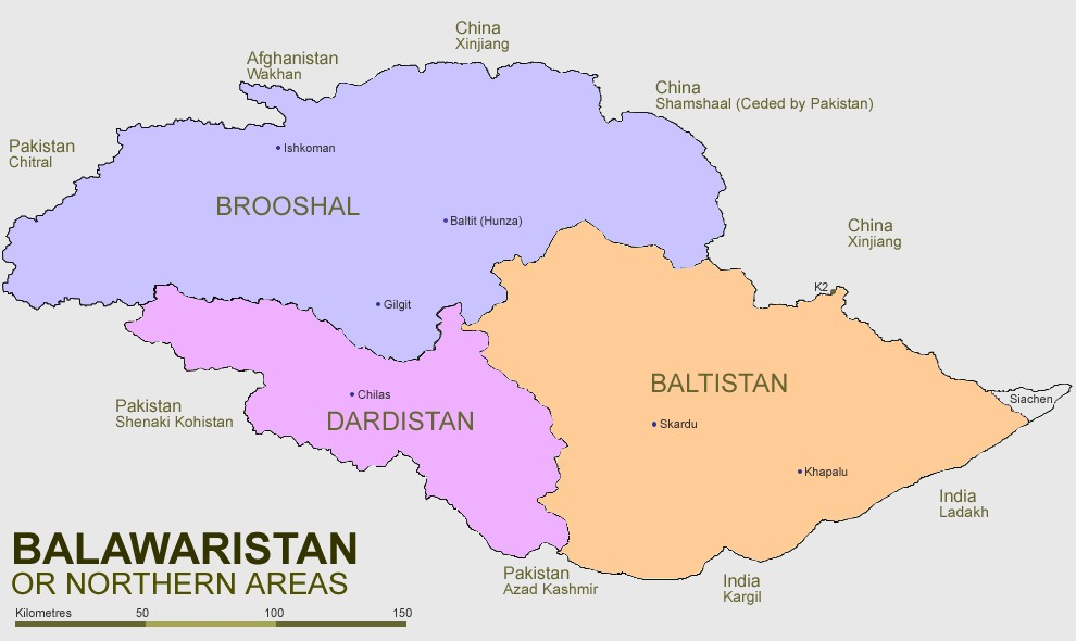 A map of Balawaristan, with its three constituent regions (Brooshal, Dardistan and Baltistan), as well as the region of Siachen Glacier (currently administered by India).